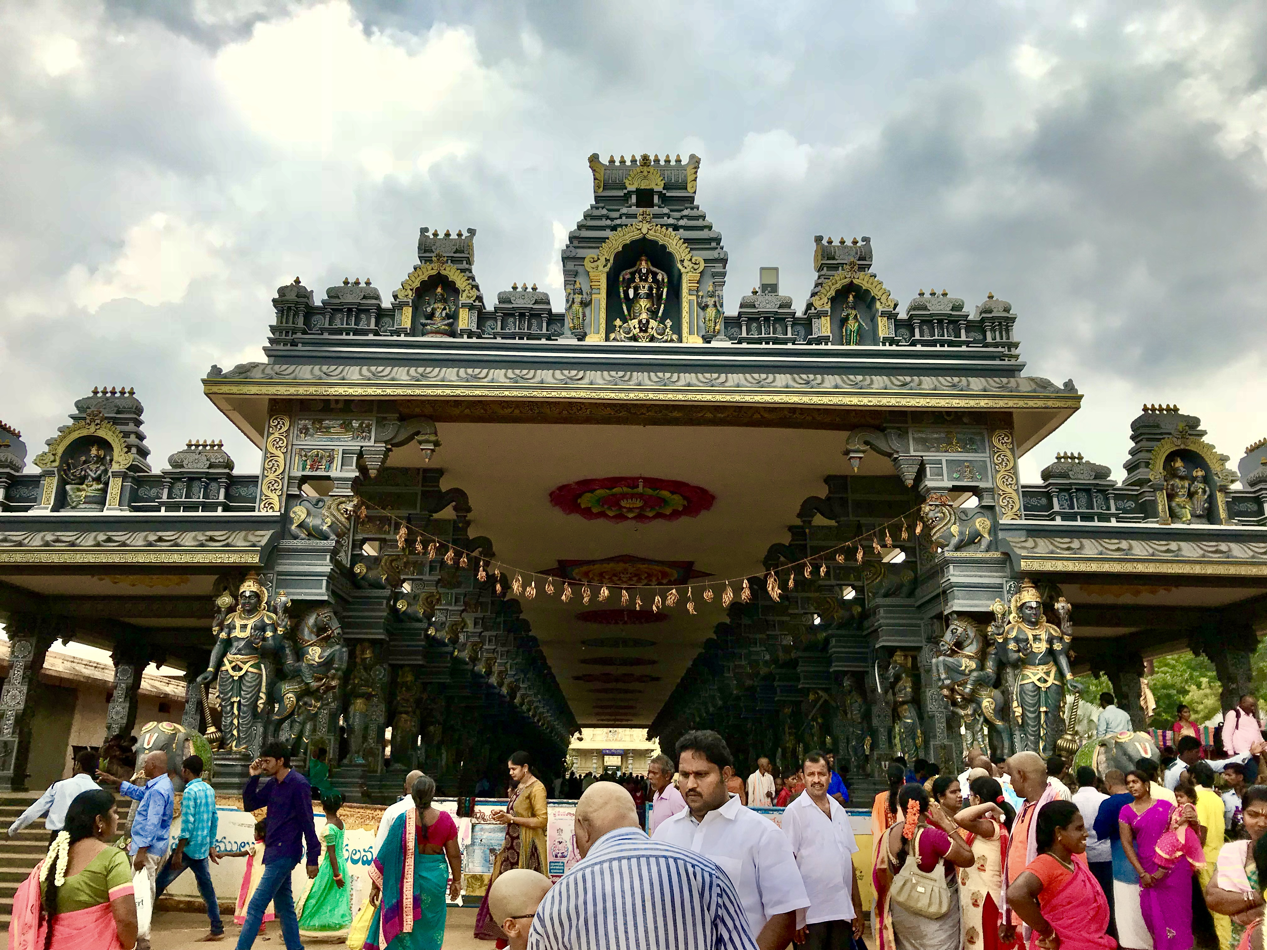 Devotees near entrance of Dwaraka Tirumala temple on a Saturday